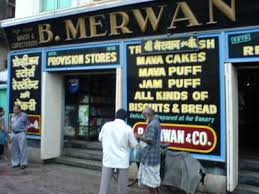 Oldest Persian Cafe at Grant Road which is shutting down on 14/03/2014